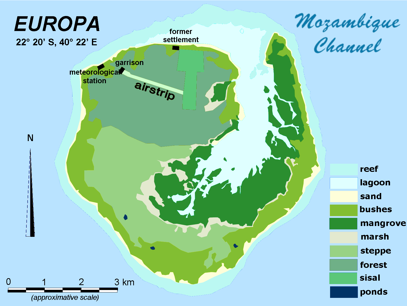 Map of Europa island : biotopes